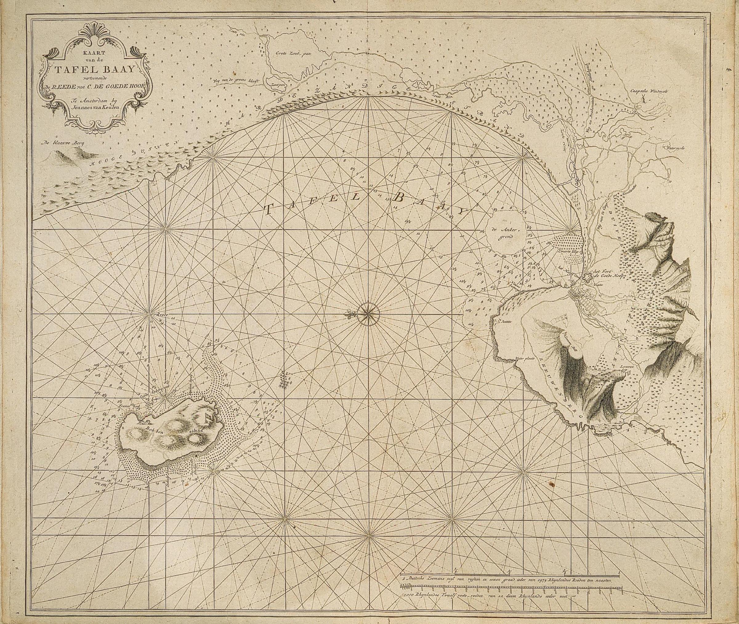 This chart is not listed in the Leupe catalogue (NA). According to the cartouche, the title reads as follows: Kaart van de Tafel baay vertoonende de reede van C. de Goede Hoop te Amsterdam by Joannes van Keulen. Robben Island, Cape of Good Hope, Table Bay